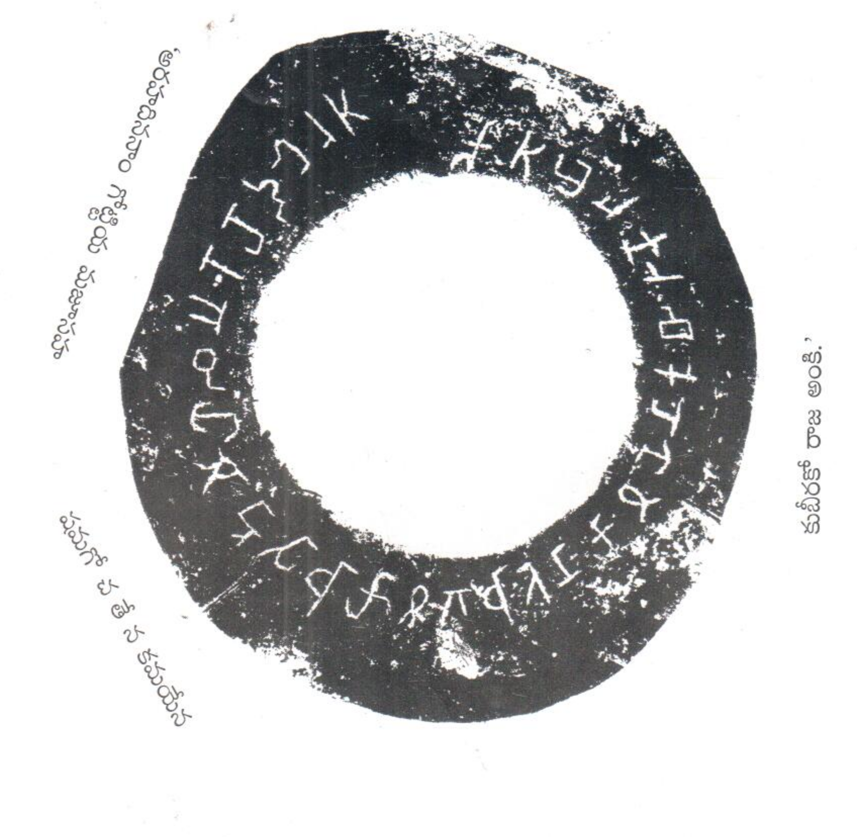 The 3rd stone inscription excavated at Bhattiprolu believed to be from 3rd century BCE.